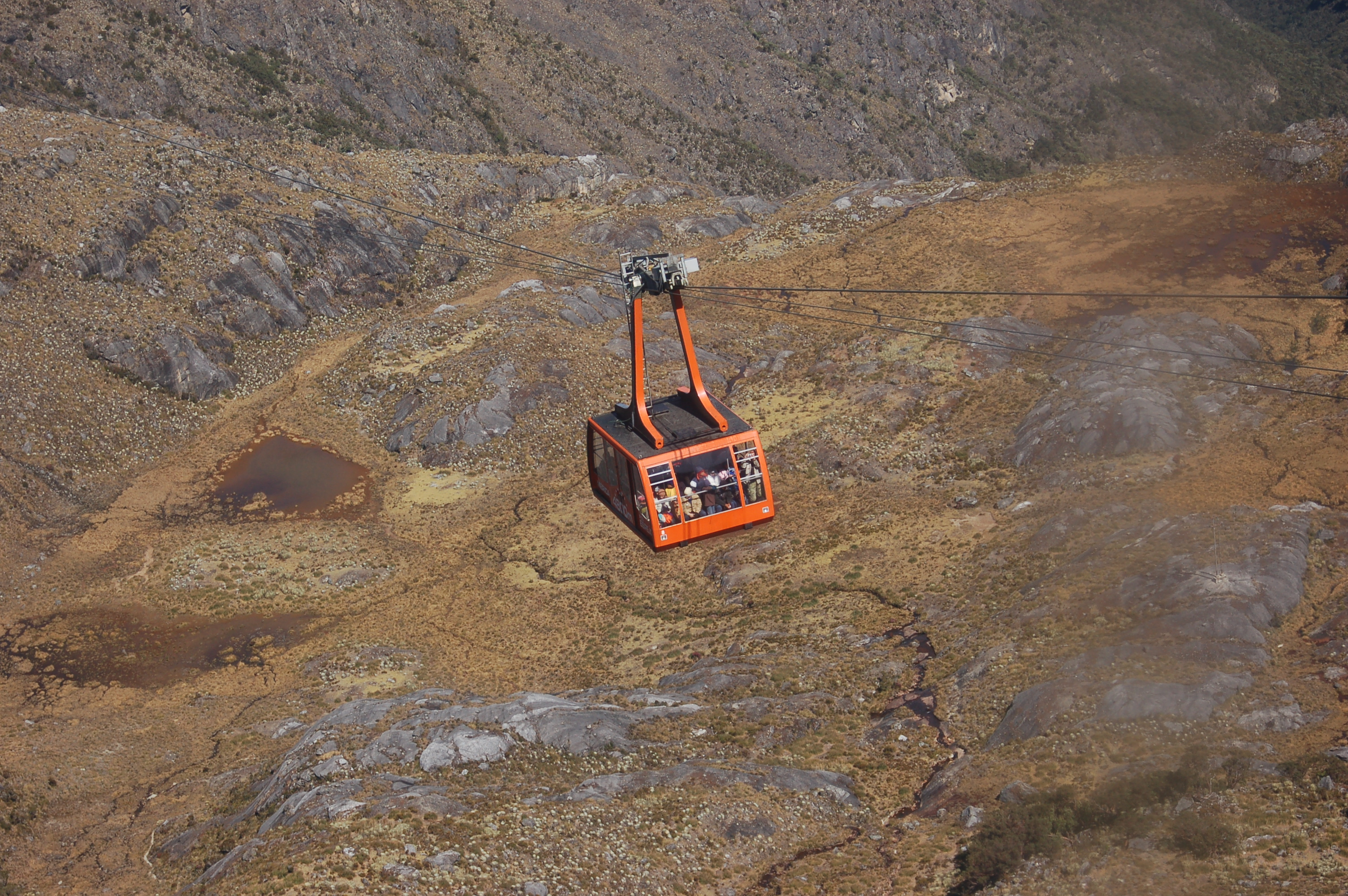 Image of Mérida Cable Car